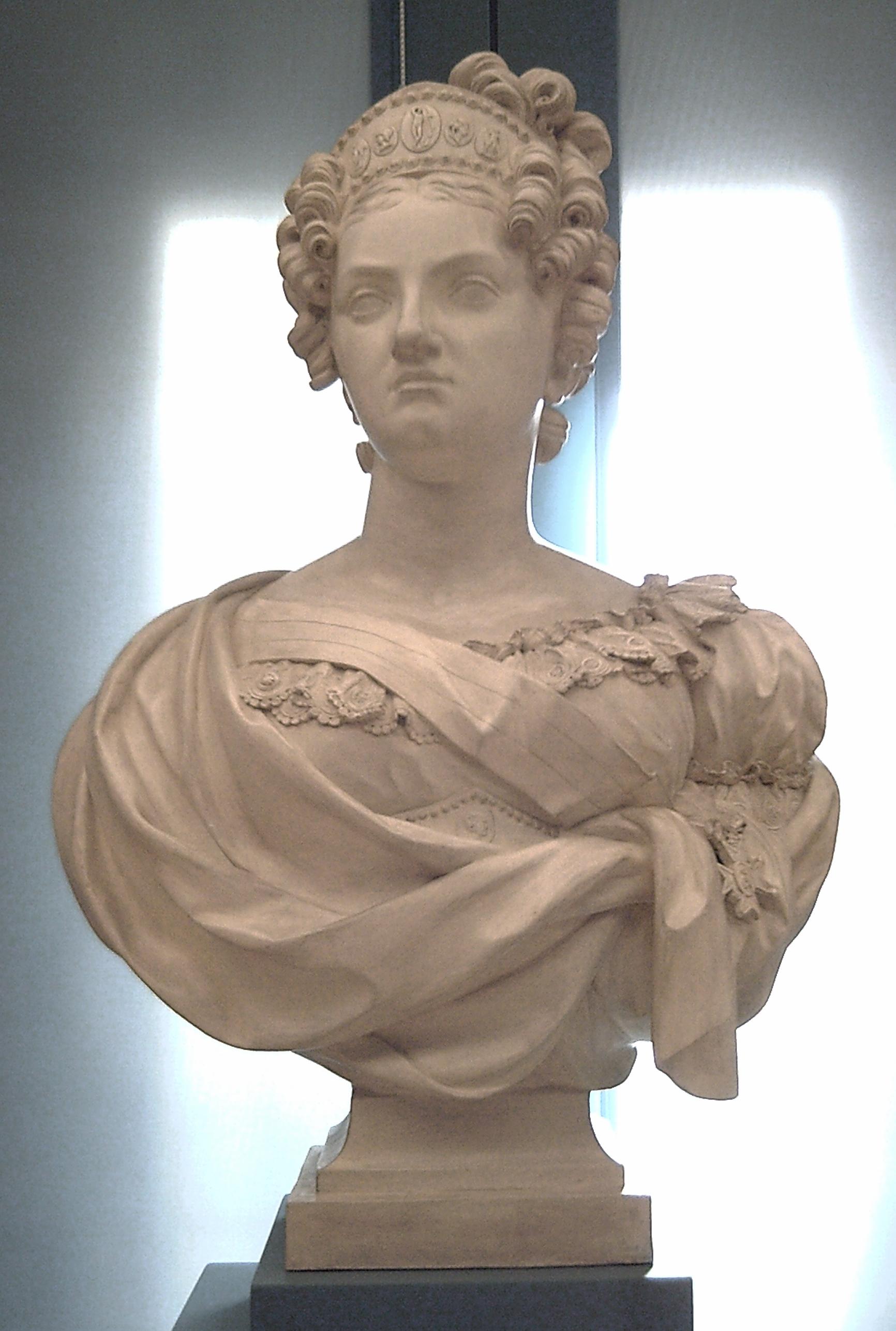 Official portrait of queen Maria Josepha of Saxony (1803–1829), Ferdinand VII of Spain's third wife.